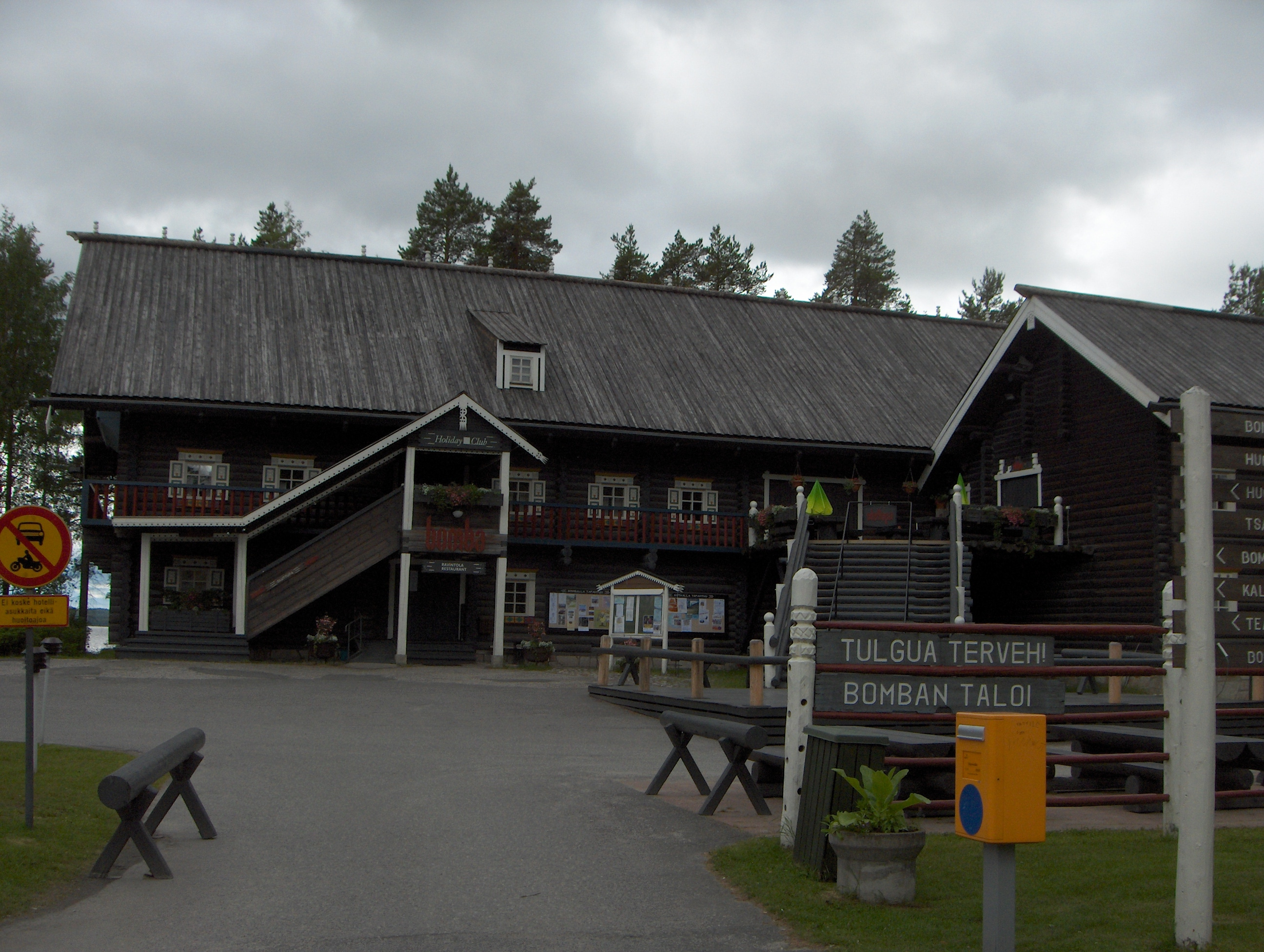 Bomban talo (Bomba House) in Nurmes, Finland